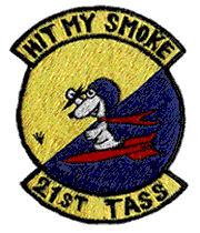 Emblem of the 21st Tactical Air Support Squadron (TASS) - Vietnam Era